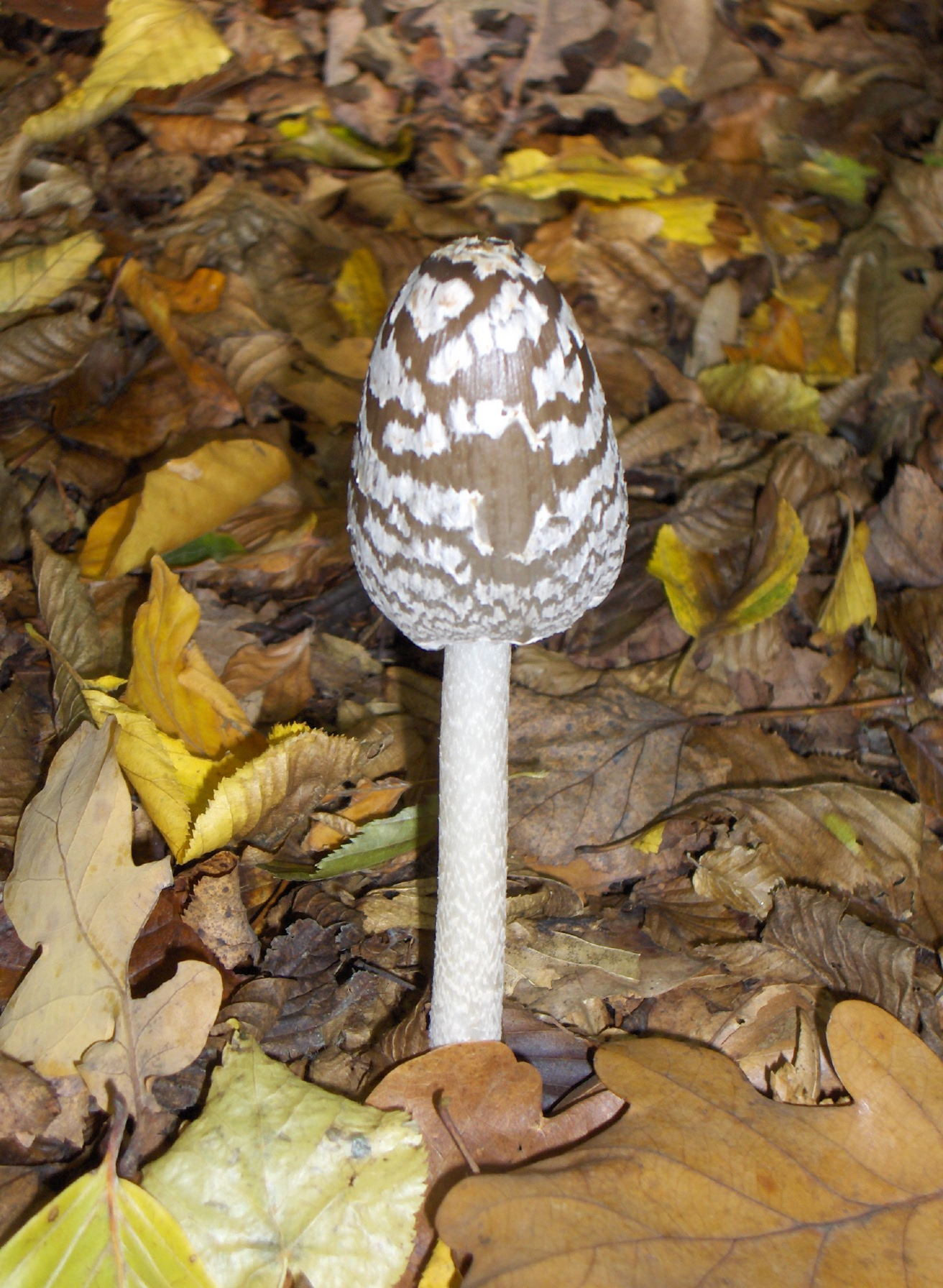 A fruit body (mushroom) of the fungus Coprinopsis picacea (Bull. : Fr.) Redhead. Vilgalys & Moncalvo. Specimen photographed in Lipik, Croatia.